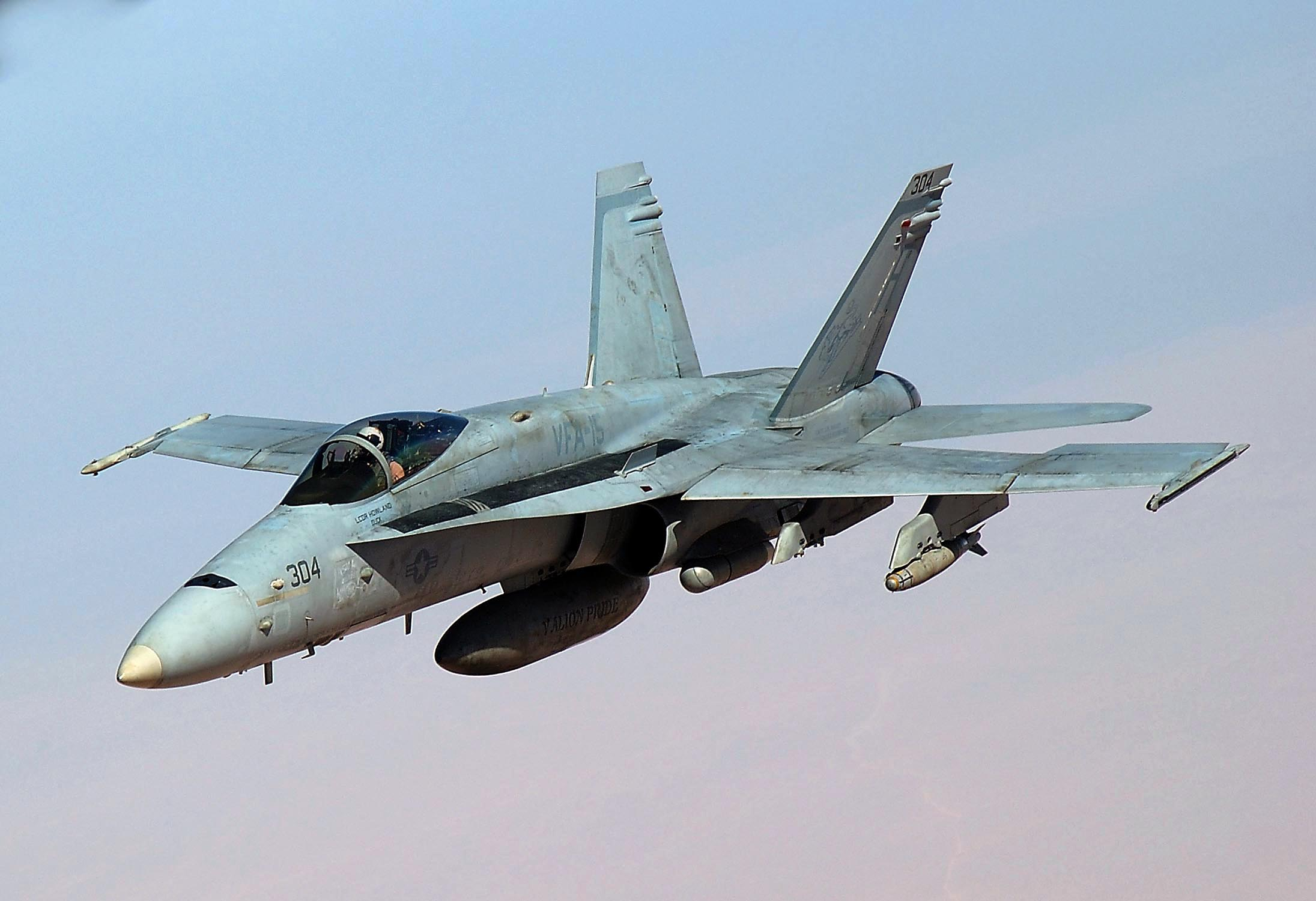 Persian Gulf (Oct. 12, 2005) - An F/A-18C Hornet, assigned to the "Valions" of Strike Fighter Squadron Fifteen (VFA-15), conducts a mission over the Persian Gulf. VFA-15 is assigned to Carrier Air Wing Eight (CVW-8), currently embarked aboard the Nimitz-class aircraft carrier USS Theodore Roosevelt (CVN 71). Roosevelt and CVW-8 are underway conducting a regularly scheduled deployment in support of the Global War on Terrorism. U.S. Air Force photo by Tech. Sgt. Rob Tabor (RELEASED)